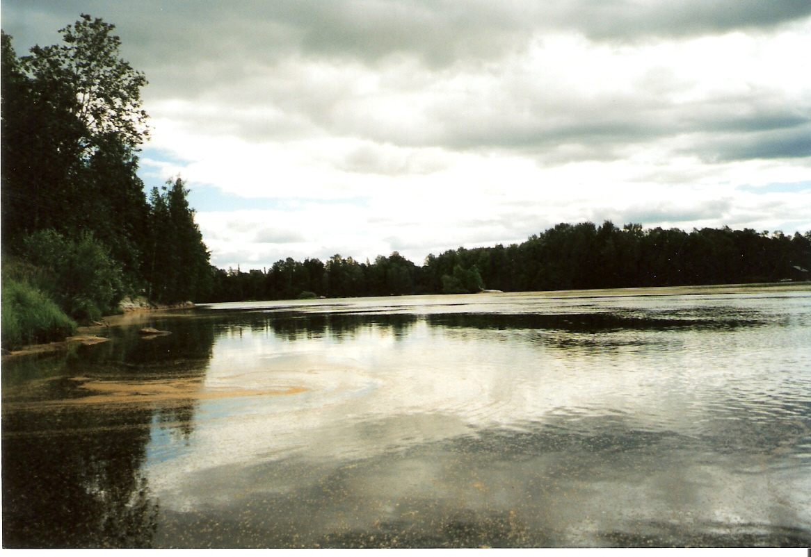 Skelleftea, Sweden